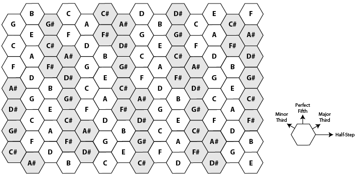 Diagram of the "Harmonic Table" note layout used on some isomorphic button-field MIDI instruments.